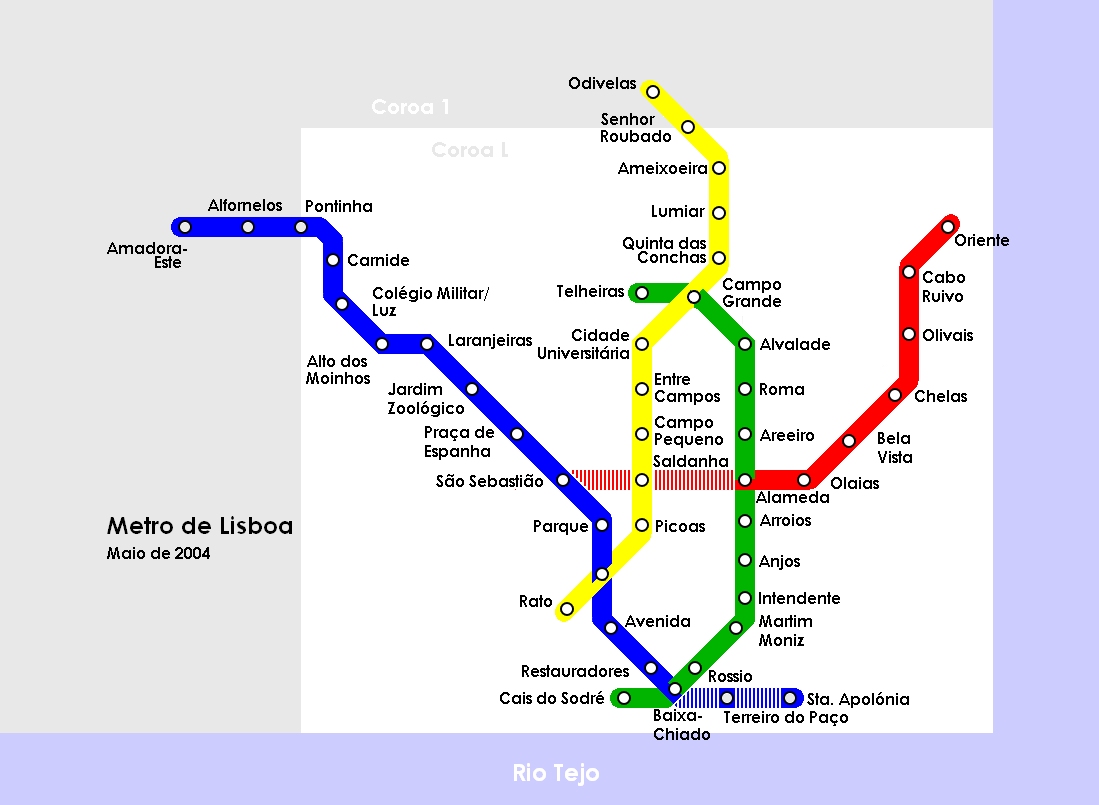 Map of Lisbon Metro in May 2004